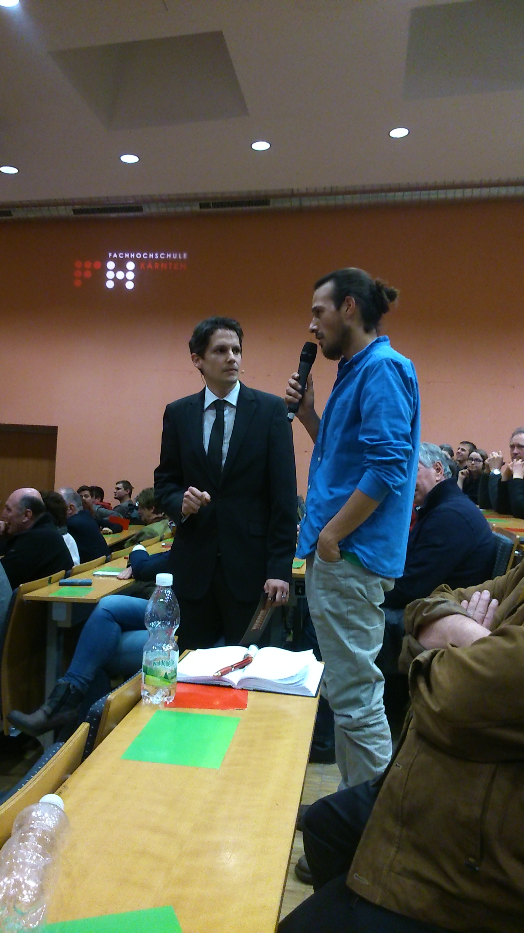 This pictures shows the Verantwortung Erde top candidate (blue shirt) talking with a journalist from the local newspaper Kleine Zeitung.